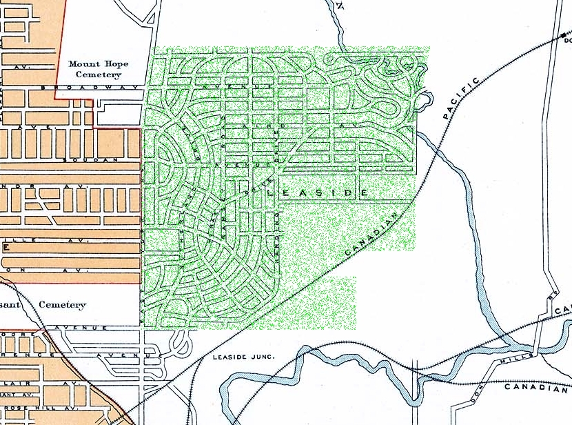 Leaside Area, from the National Atlas of Canada's 2nd edition